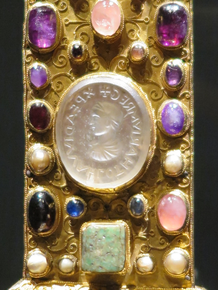 Cross of Lothair with a stamp seal of rock crystal on the lower half of the vertical bar. On the stamp seal, manufactured for Lothair I, is a cut of a profile image of the Emperor, surrounded by a cut in mirror-reversed letters inscription: + XPE ADIVVA HLOTARIVM REG („Christ, help King Lothair!“).